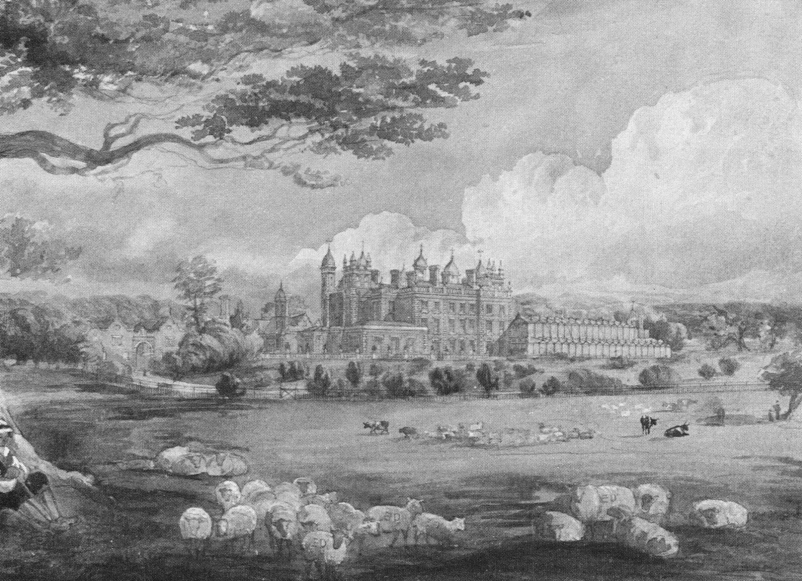 A painting of the garden front of Capesthorne Hall, Cheshire, by its architect Edward Blore